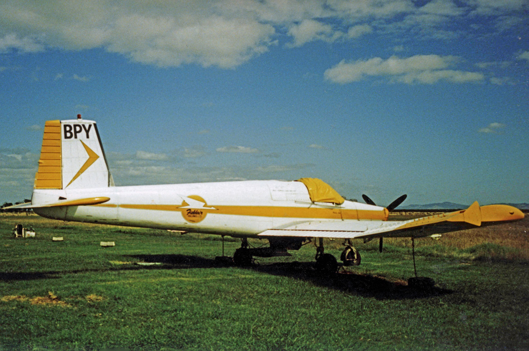 Fletcher FU-24-950M agricultural aircraft at Thames airfield, North Island, New Zealand